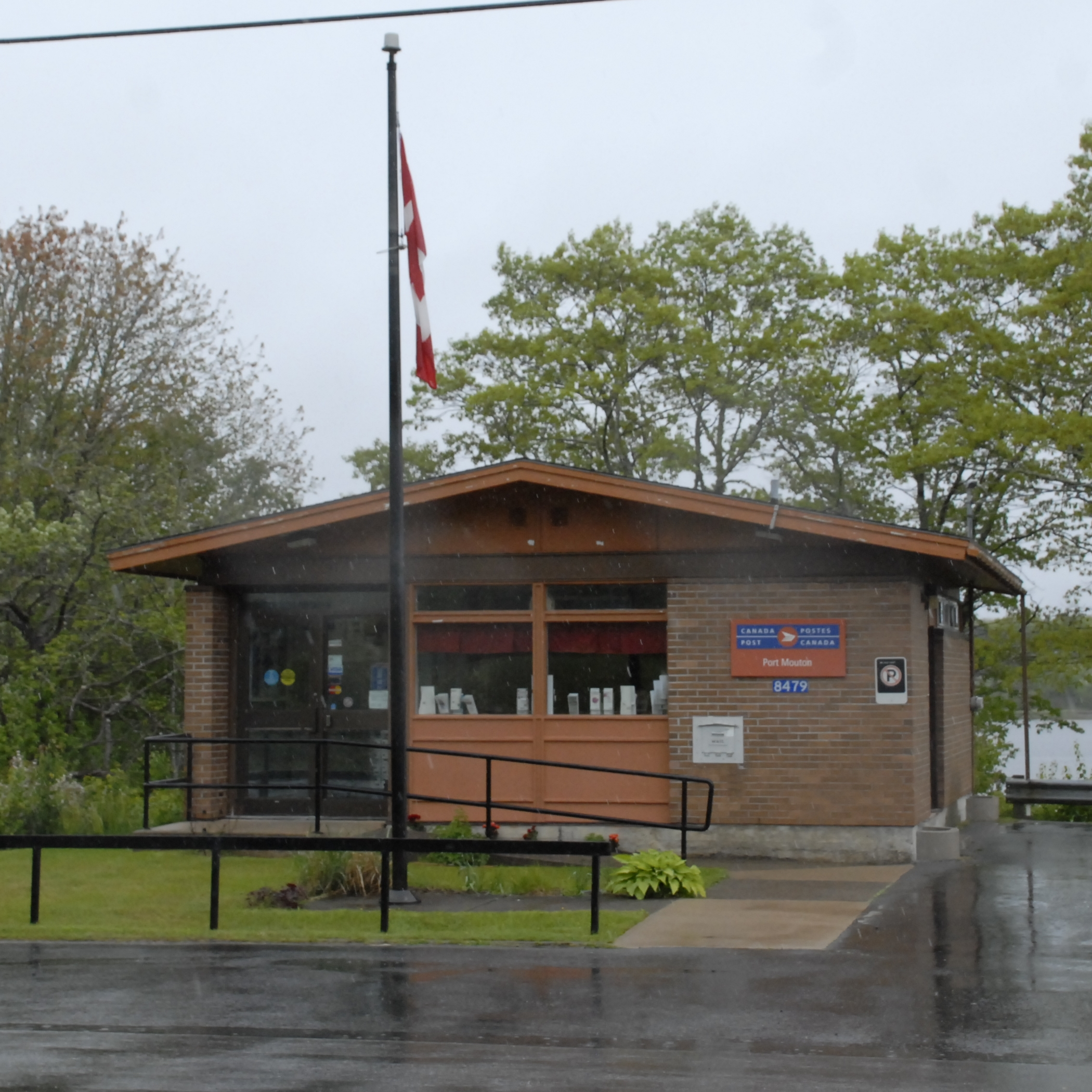 Post office in Port Mouton, Queens County, Nova Scotia